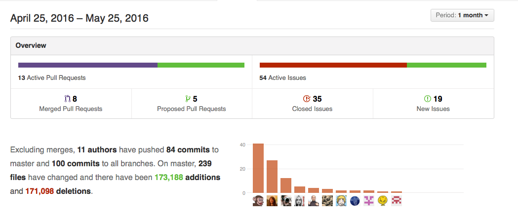 Contributions Overview